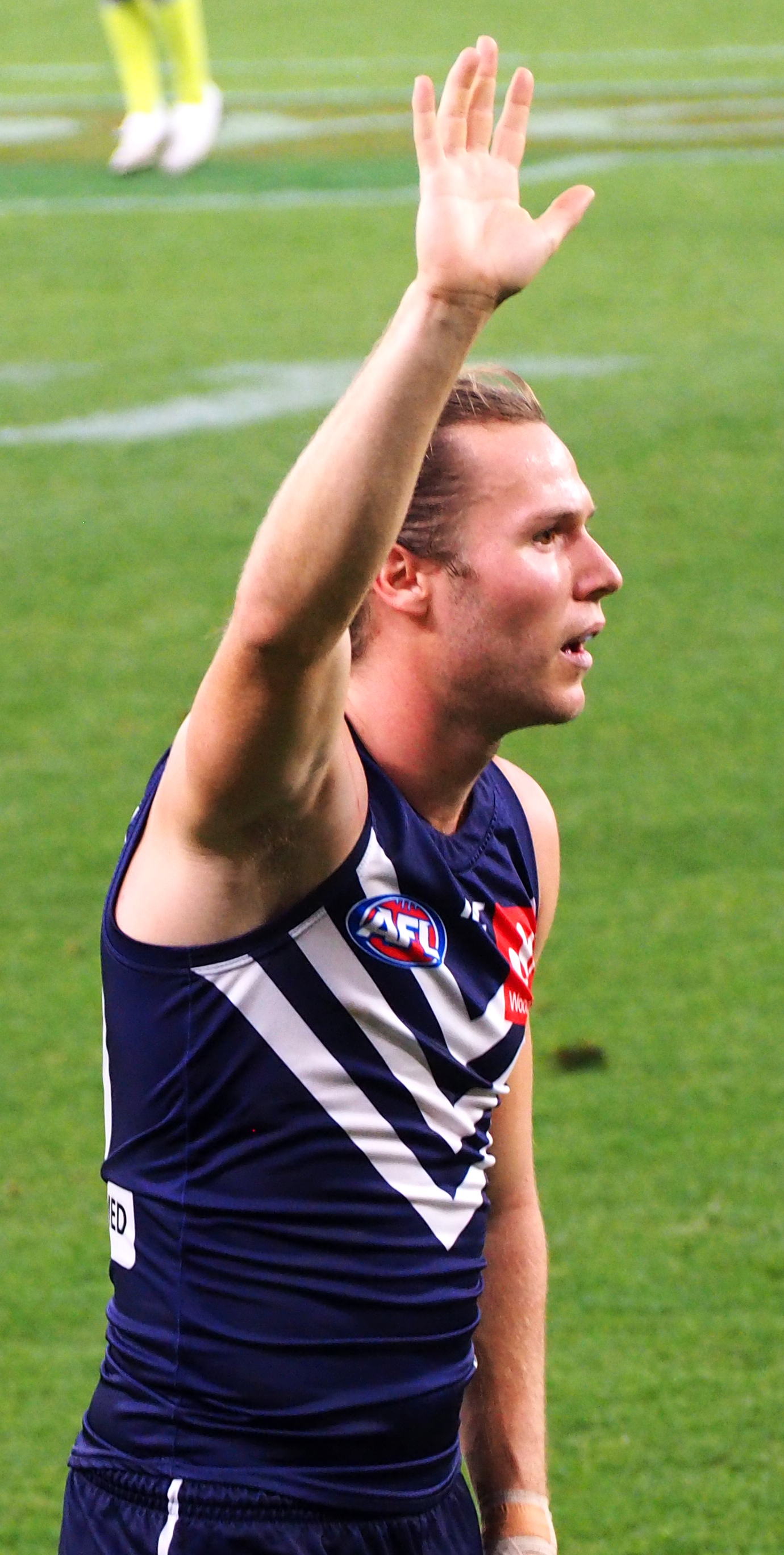 Ed Langdon playing for Fremantle Football Club at Optus Stadium, Round 6, 27 April 2019